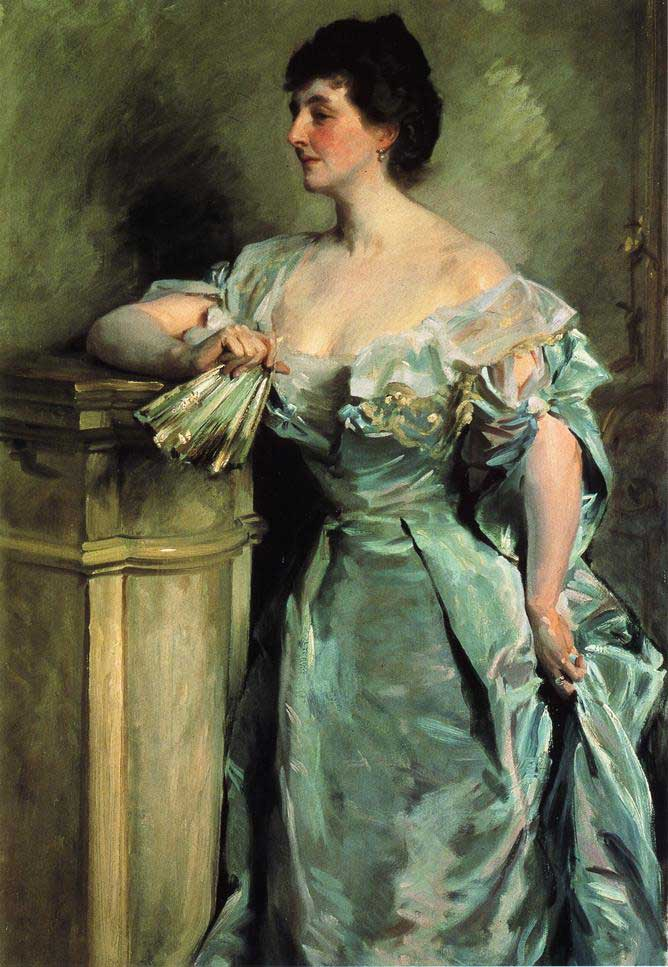 Lady Meysey-Thompson John Singer Sargent -- American painter c. 1901 Private collection Oil on canvas 160 x 100 cm (62.99 x 39.37 in.) Jpg